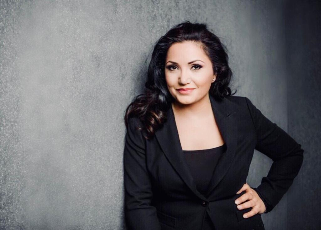 Liana Aleksanyan, Armenian-German soprano